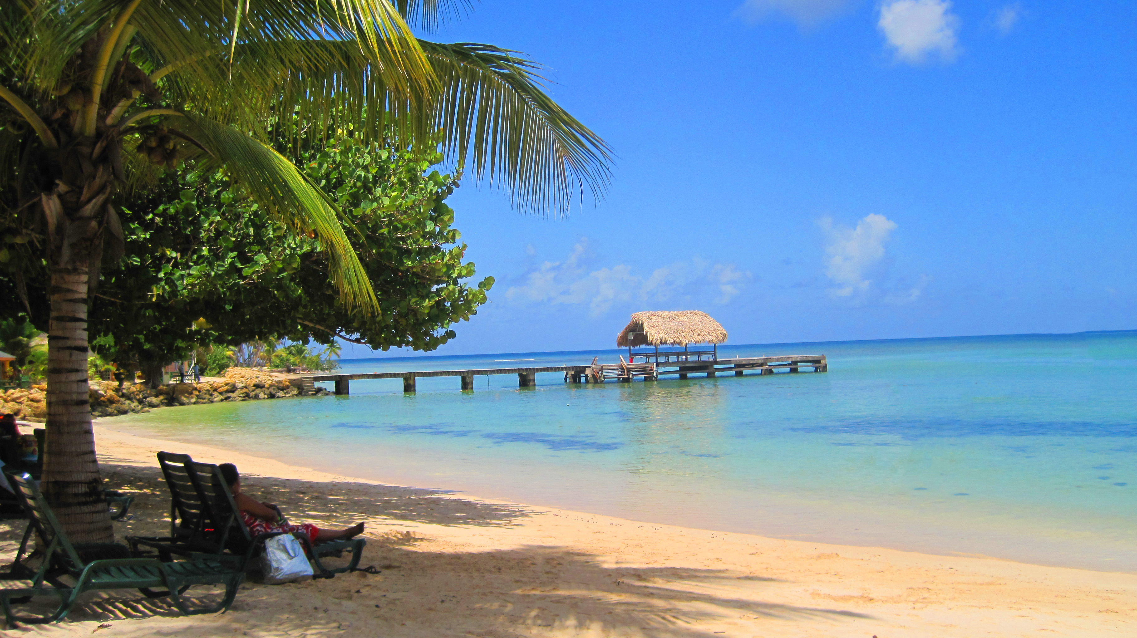 Pigeon Point beach, Tobago, Trinidad and Tobago, west Indies.